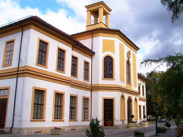 This palais with a octogon base is building by Johann Christoph von Naumann in 1728. Today it is a part of the hospital Dresden-Friedrichstadt.